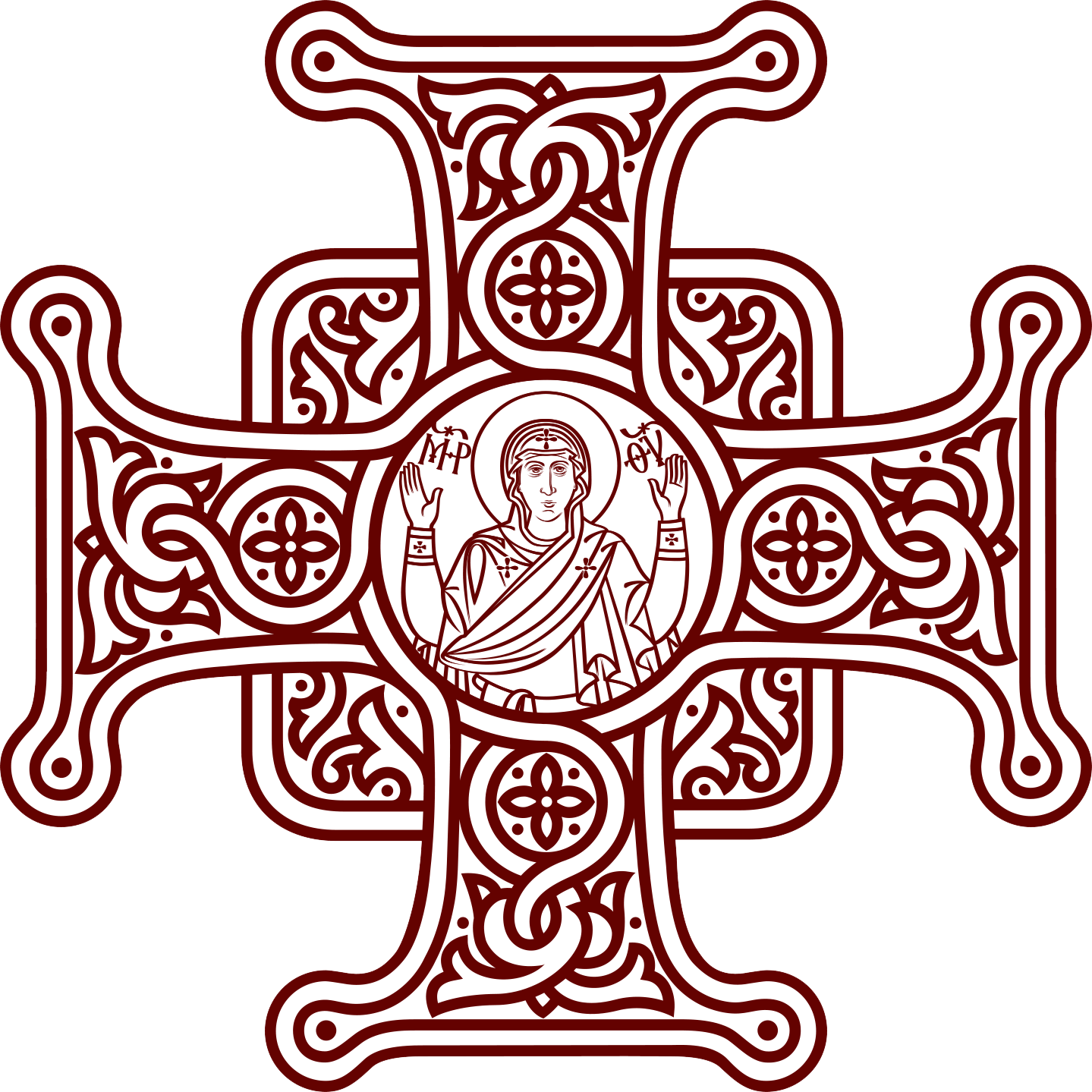 Emblem, Orthodox Church of Ukraine